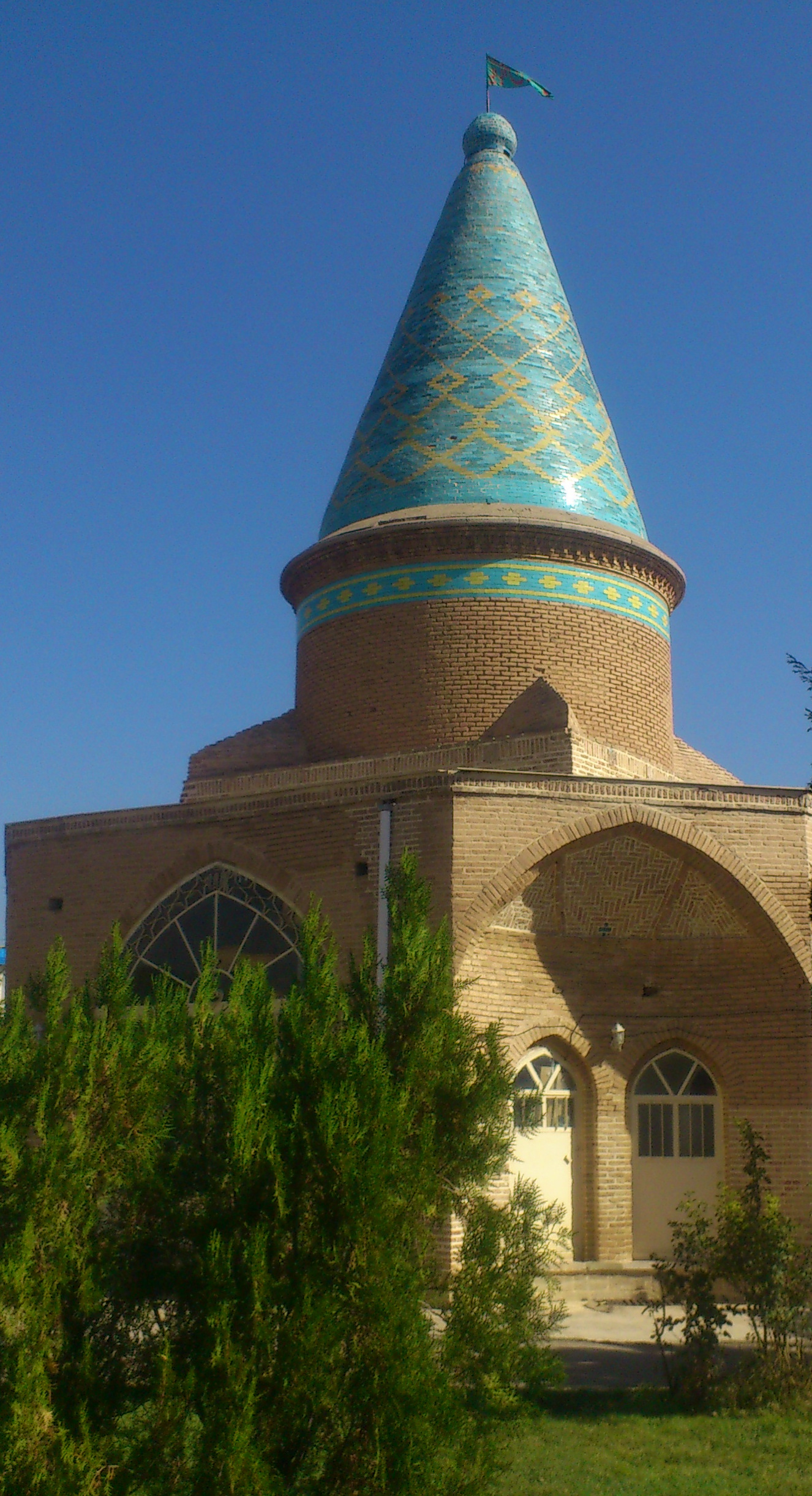 Shahzade kabir